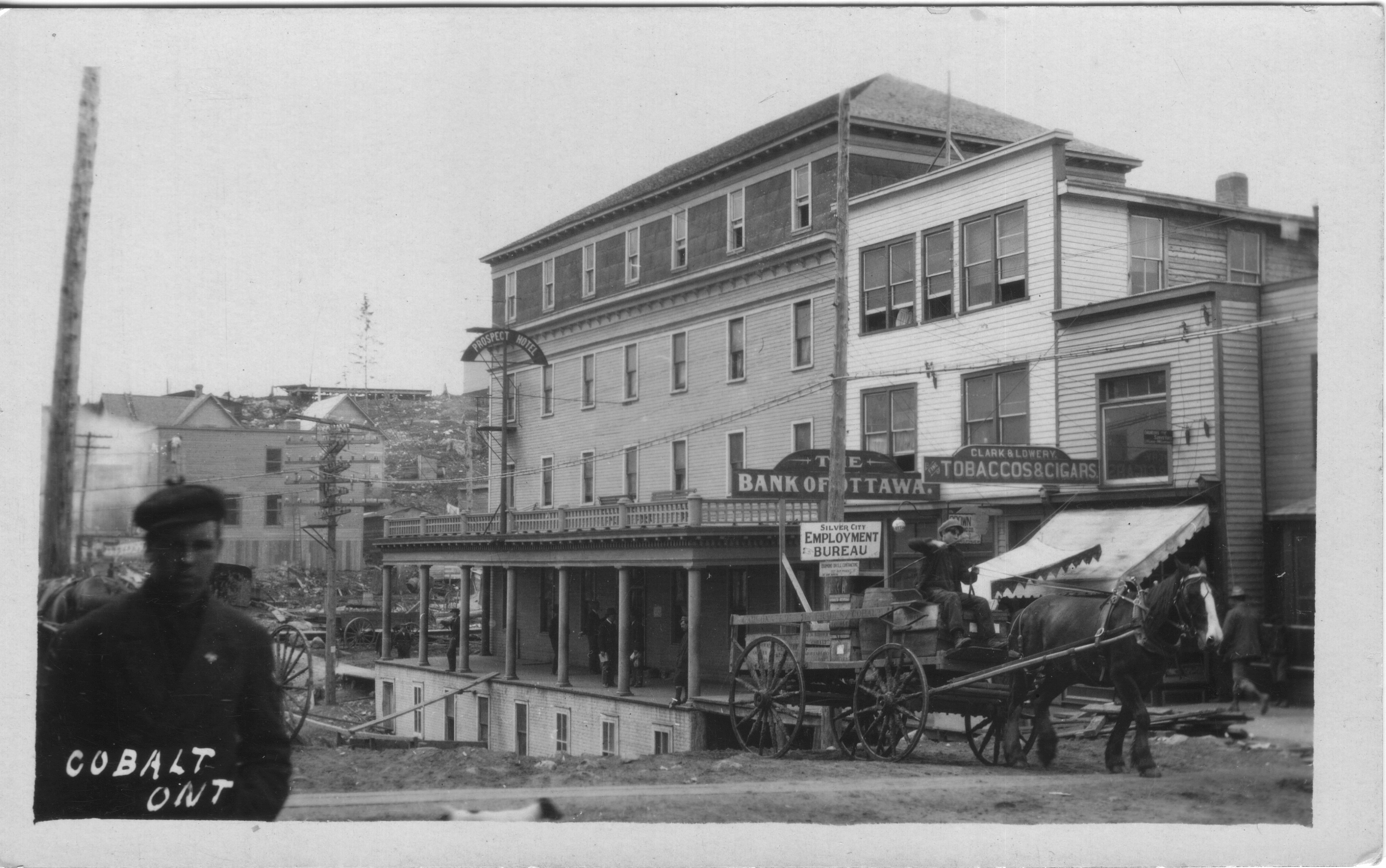 The Bank of Ottawa - Cobalt, Ontario